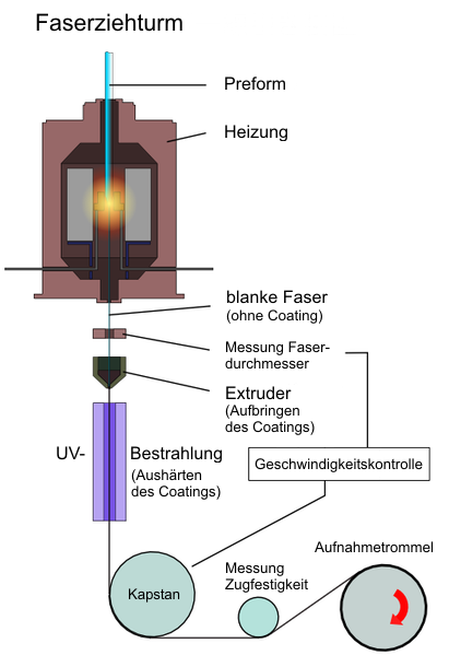 Fiber drawing process from the preform (German labeling)